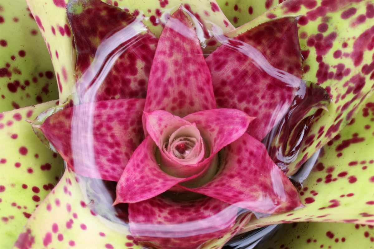 Nidularium 'Leprosa'